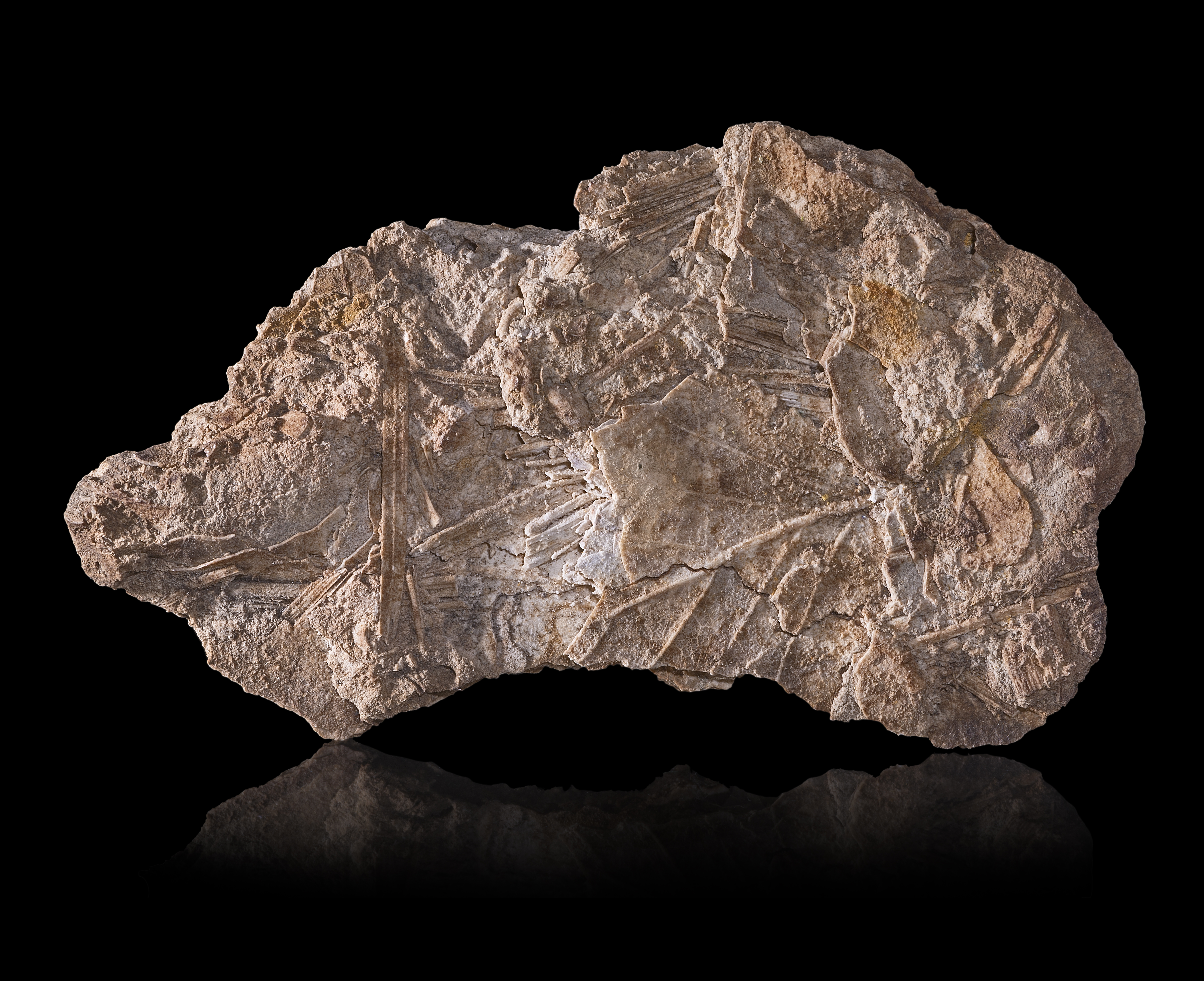 Opal Geyserite - Iceland (9x5.5cm)